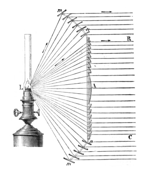 Section diagram showing how a Fresnel lens (A) in a lighthouse works to collimate light from an oil lamp (L) into a parallel beam. The Fresnel lens, invented in 1822 by Augustin-Jean Fresnel, increased the light projecting power of lighthouses greatly without the weight of a conventional lens of its size. Also shown are mirror strips (m,n) mounted above and below the lens that most lighthouses had, to gather more of the lamp's light. Alterations: removed caption, erased blots in white areas, changed brightness levels to get rid of noise in white areas, sharpened light path lines.